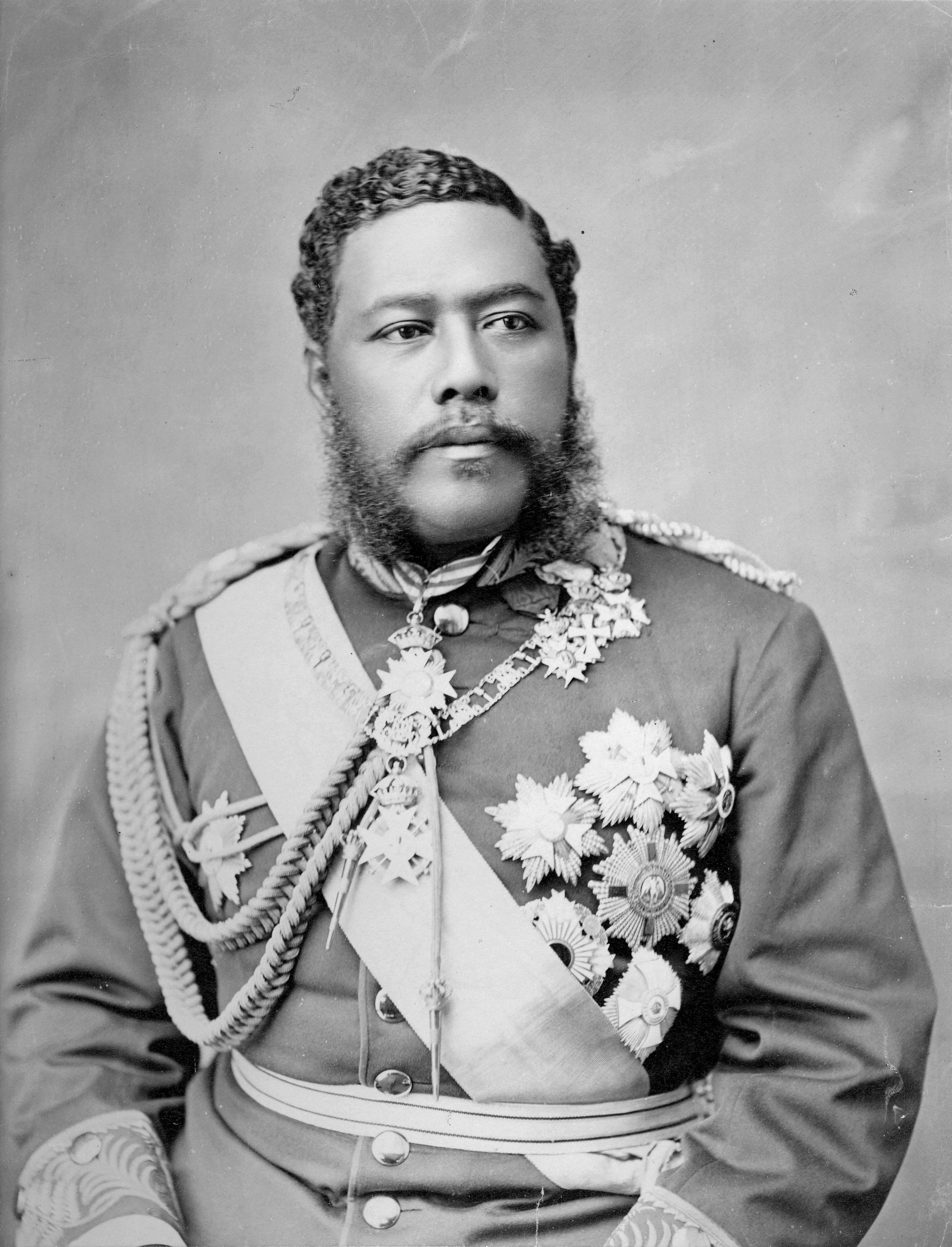 Hawai'i State Archives image of King David Kalakaua